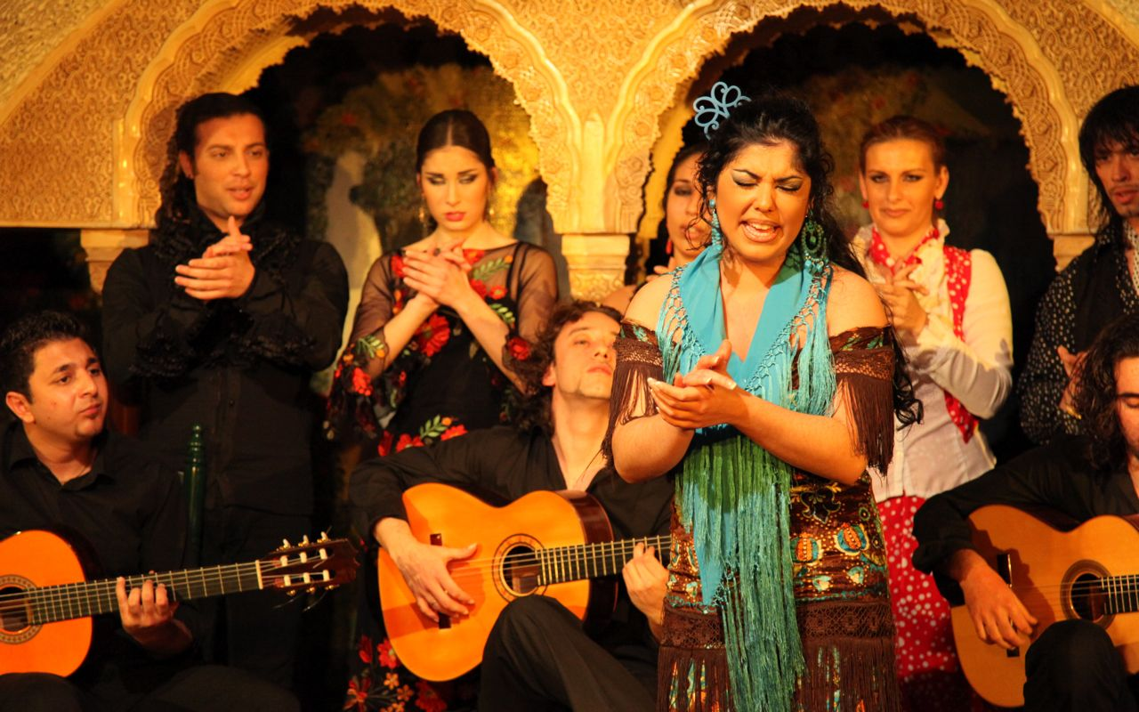 Flamenco show at "Tablao Flamenco Cordobes" in Barcelona, Spain